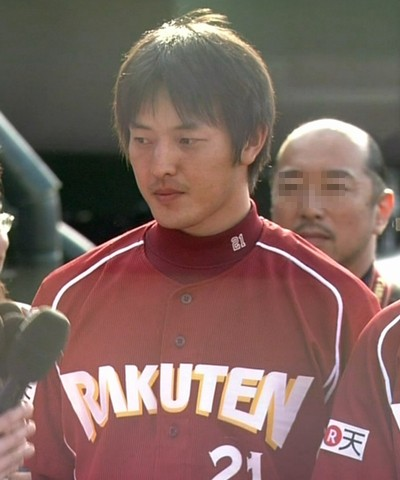 Hisashi Iwakuma